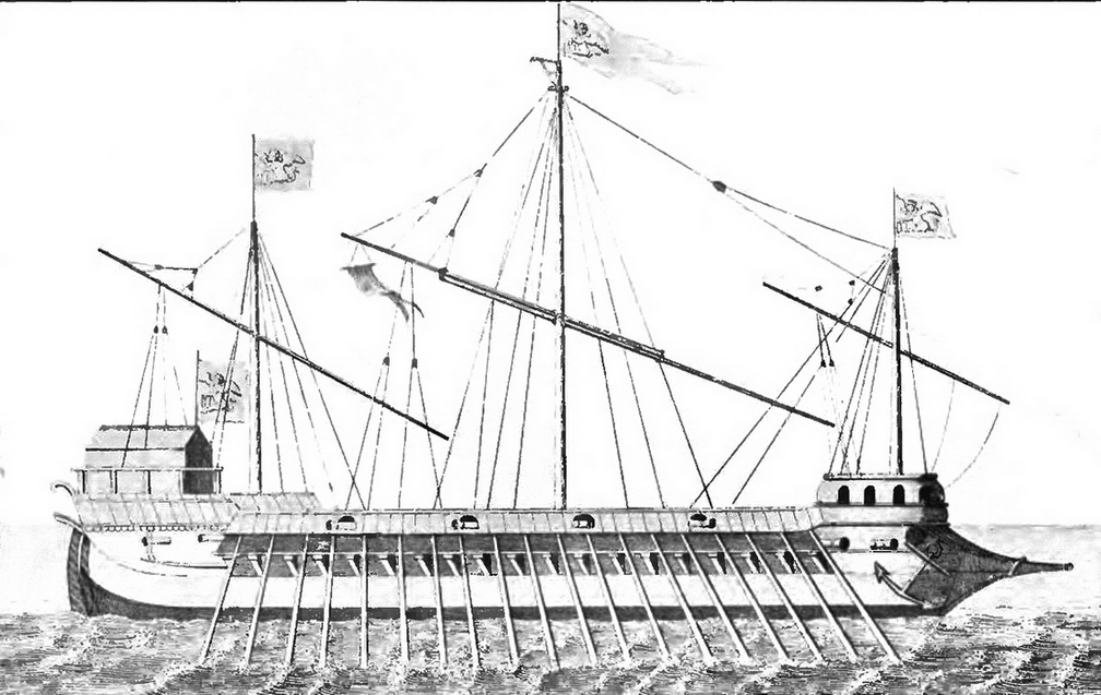 Heresies of Sea Power (1906), facing p. 75, reproduced from John Fincham, A History of Naval Architecture (1851), after a 1570s painting.